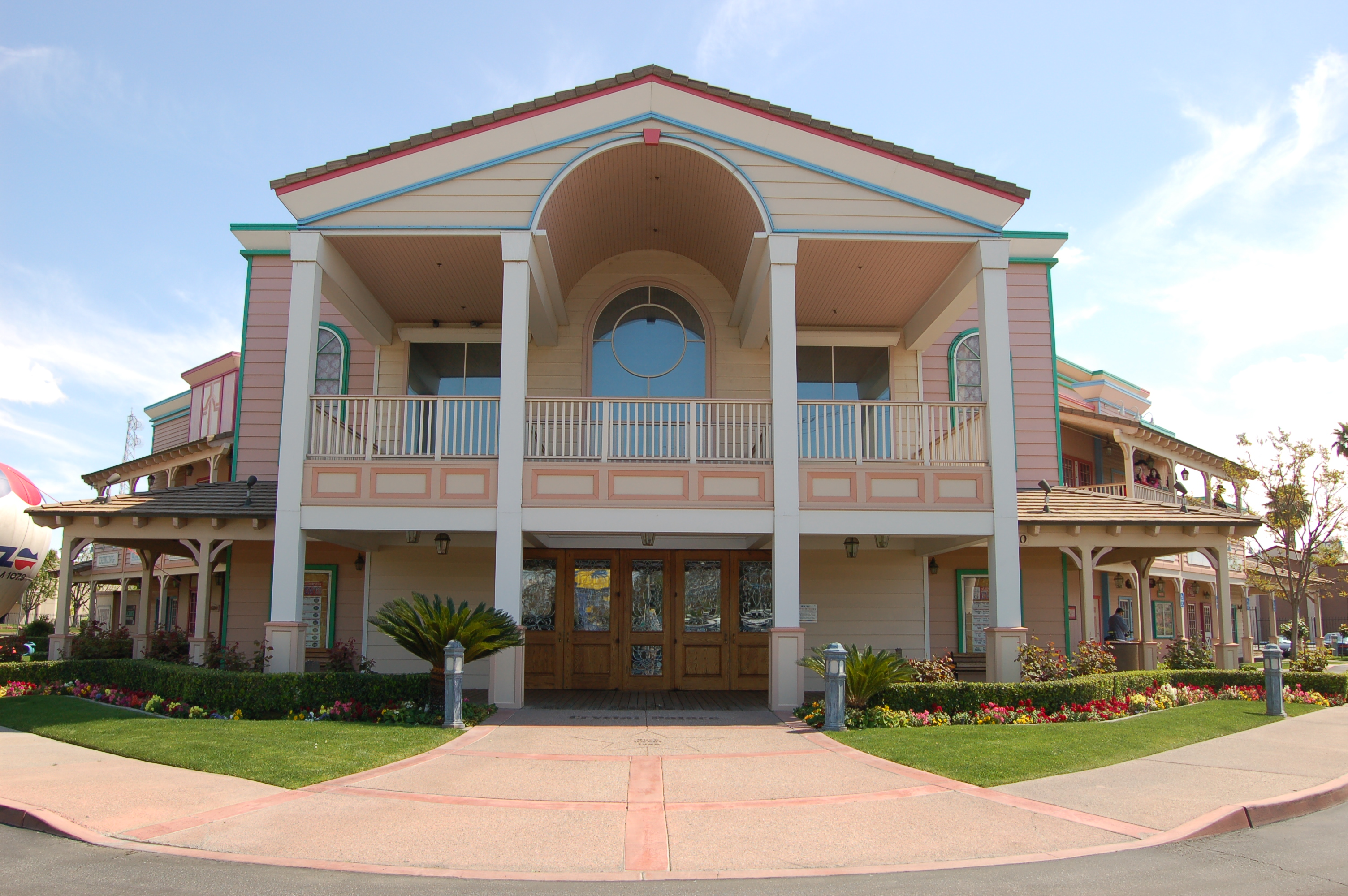 Exterior Buck Owens Crystal Palace Front